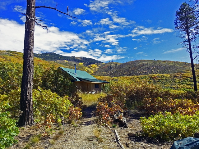 Photo by Joe Brodnik